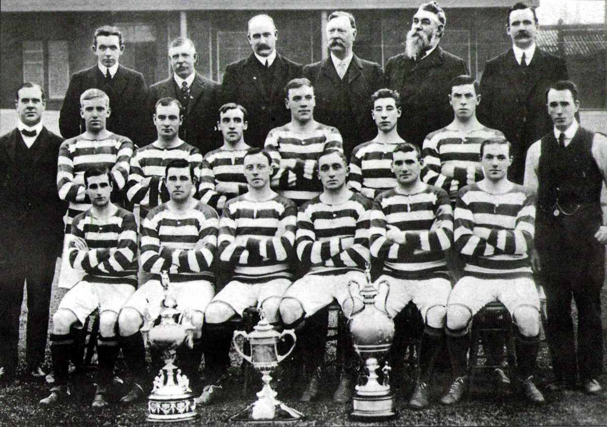 Celtic - Championship, Cup and Glasgow Cup Winners 1917-1918